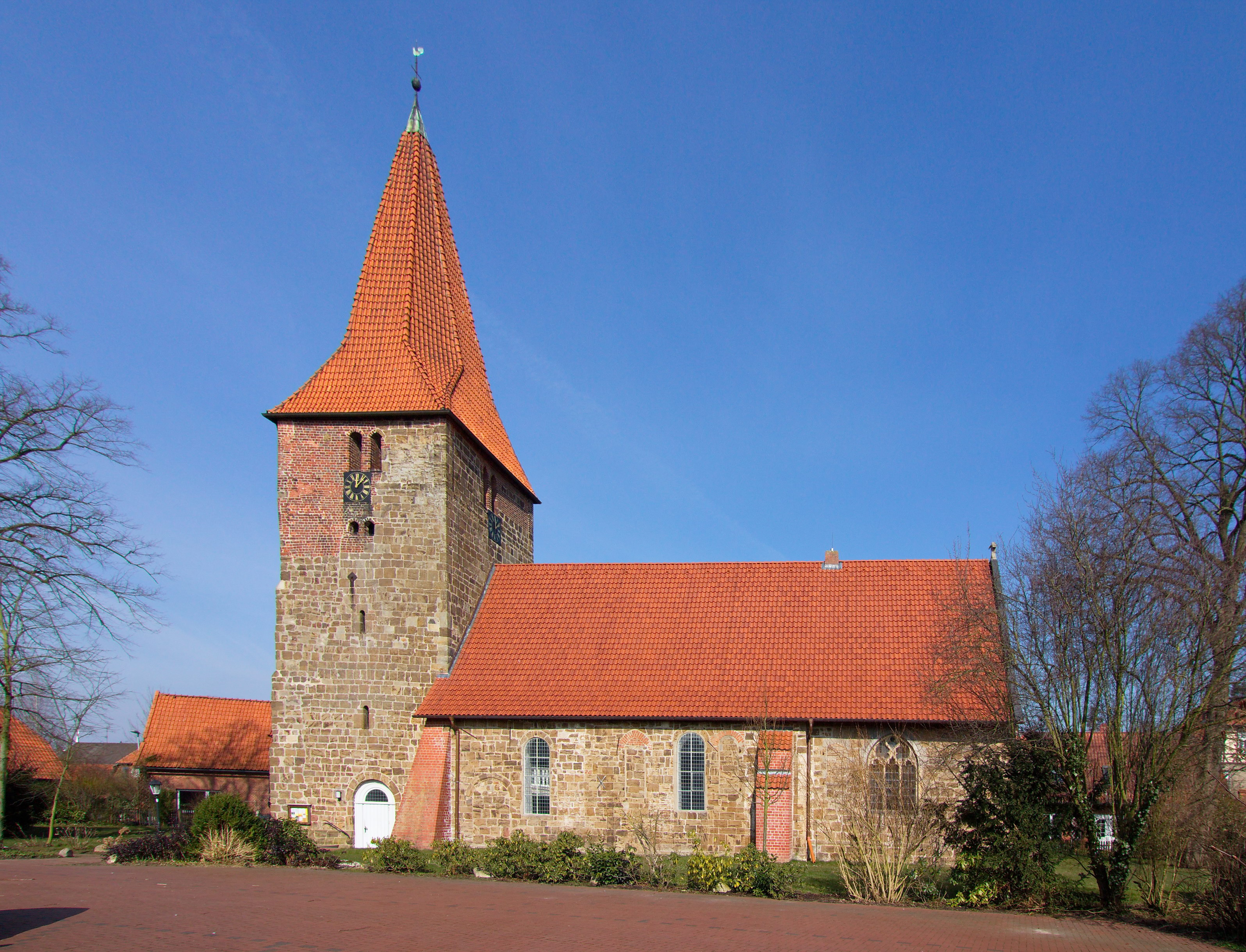 Die Dorfkirche in Balge, Niedersachsen, Deutschland, mit dem markanten Wehrturm wurde um 1300 in romanischer Form errichtet.